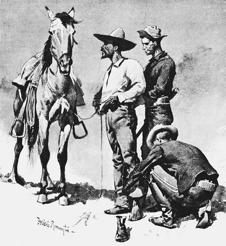 "Third Cavalry Troopers Searching a Suspected Revolutionist" by Frederic Remington, circa 1892. Copied from Davis, Richard Harding The West from a car window New York : Harper & Brothers, 1892 p. 53. UT Institute of Texan Cultures at San Antonio, 072-0902.